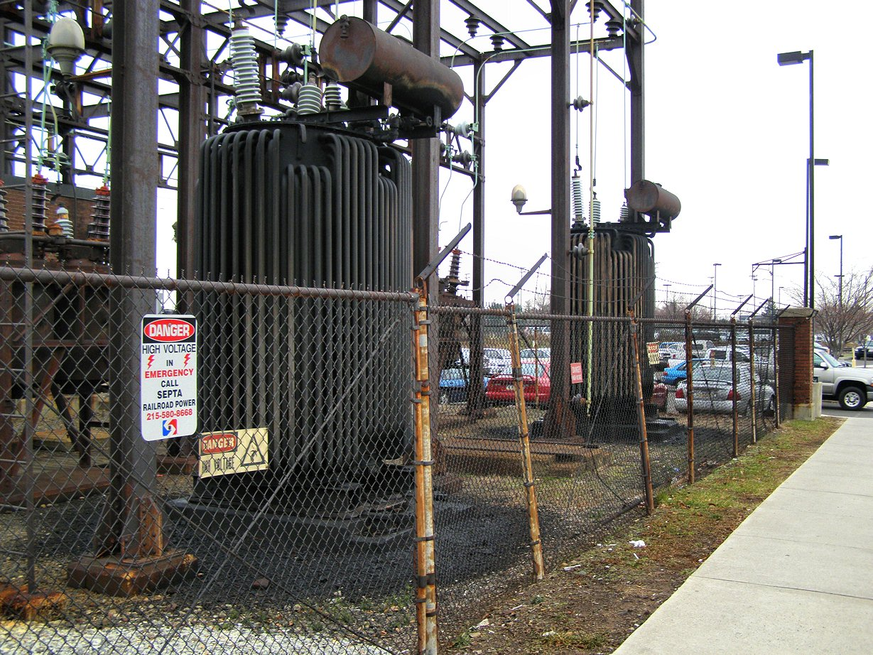 Original 1930's transformer equipment at the SEPTA Lansdale railroad substation installed by the Reading Railroad